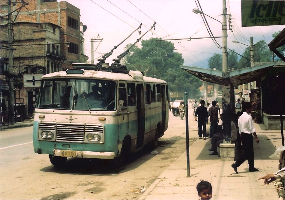 A Kathmandu trolleybus, make and model Shanghai SK541, in service on the Kathmandu trolleybus system.